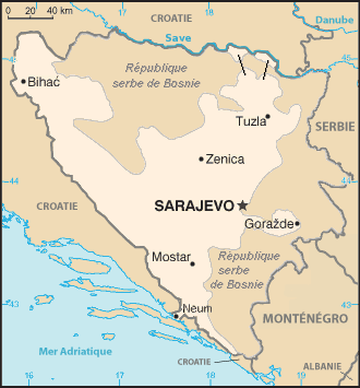 Map of the Federation of Bosnia and Herzegovina